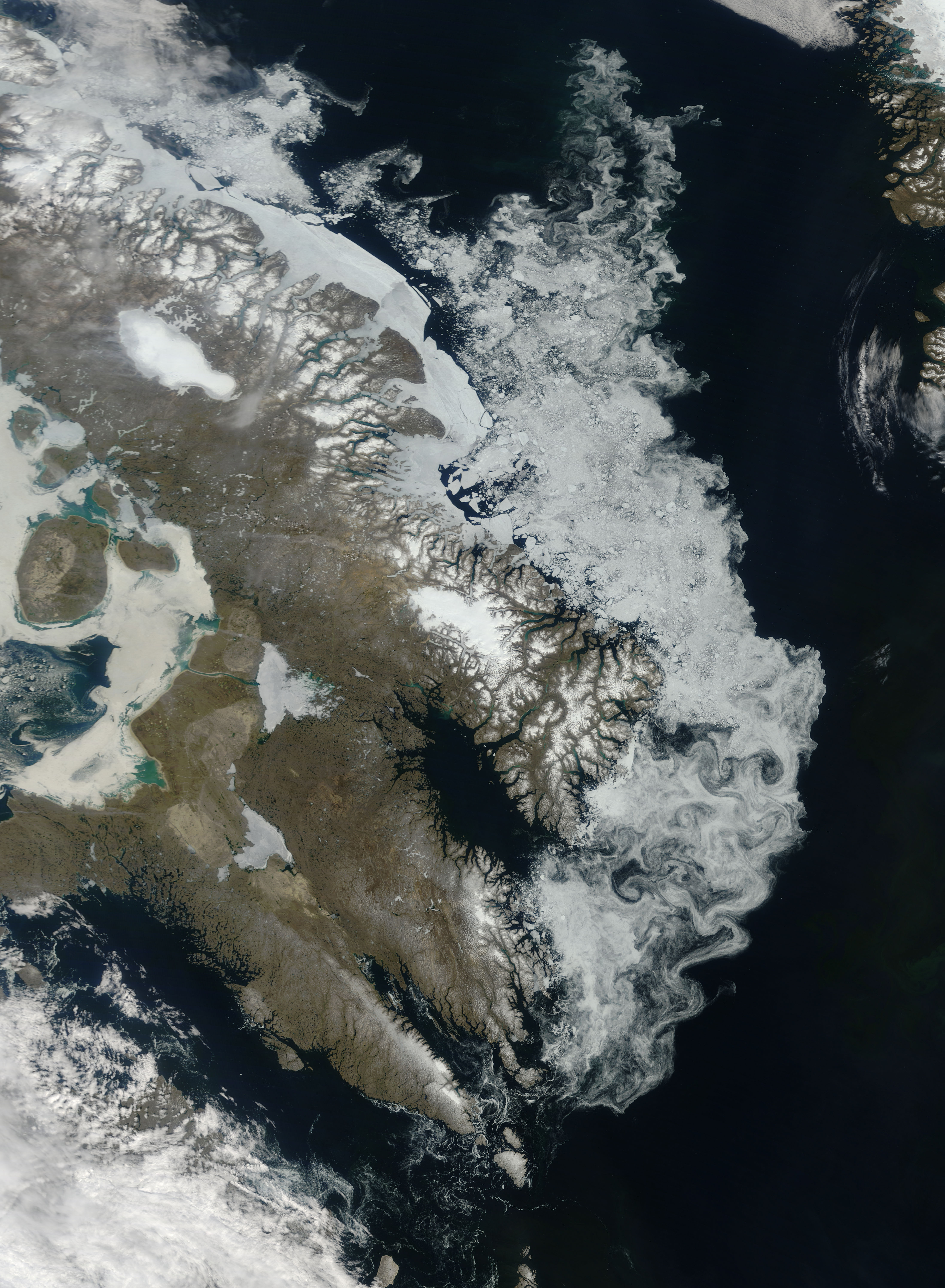 This natural-colour (photo-like) image shows winter ice hugging the coastline of Canada’s Baffin Island. Clouds often hover over the Arctic during the Northern Hemisphere summer, making cloud-free images such as this one relatively rare. Although a few wispy clouds appear in the upper right and lower left corners of this image, the delicate swirls of white running along the eastern edge of Baffin Island are sea ice. Eddies along Baffin Island’s coast have fashioned the ice into interlocking swirls, especially near Cumberland Sound. Farther north, a long band of ice holds fast to the shore east of Barnes Icecap. Although less inclined to move with the currents, this ice also shows signs of weakening, as its edges splinter, and pieces float away. The sea ice retreat captured in this image appears typical of seasonal melt. Since the turn of the twenty-first century, however, Arctic sea ice extent has declined sharply, experiencing a series of low summertime extents and poor wintertime recoveries.